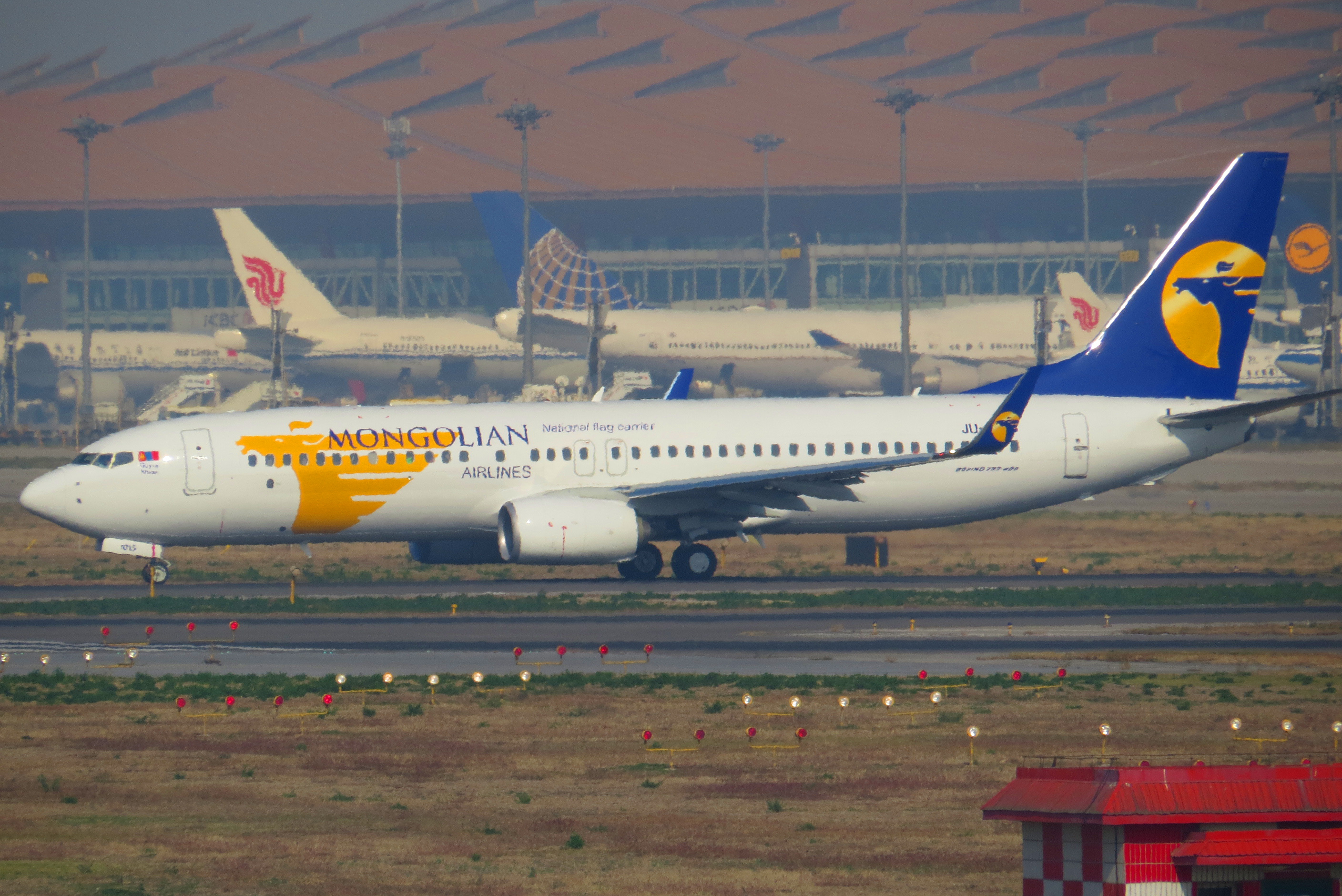 Mongol Air 231 to Singapore. Turning right to 36R for departure.